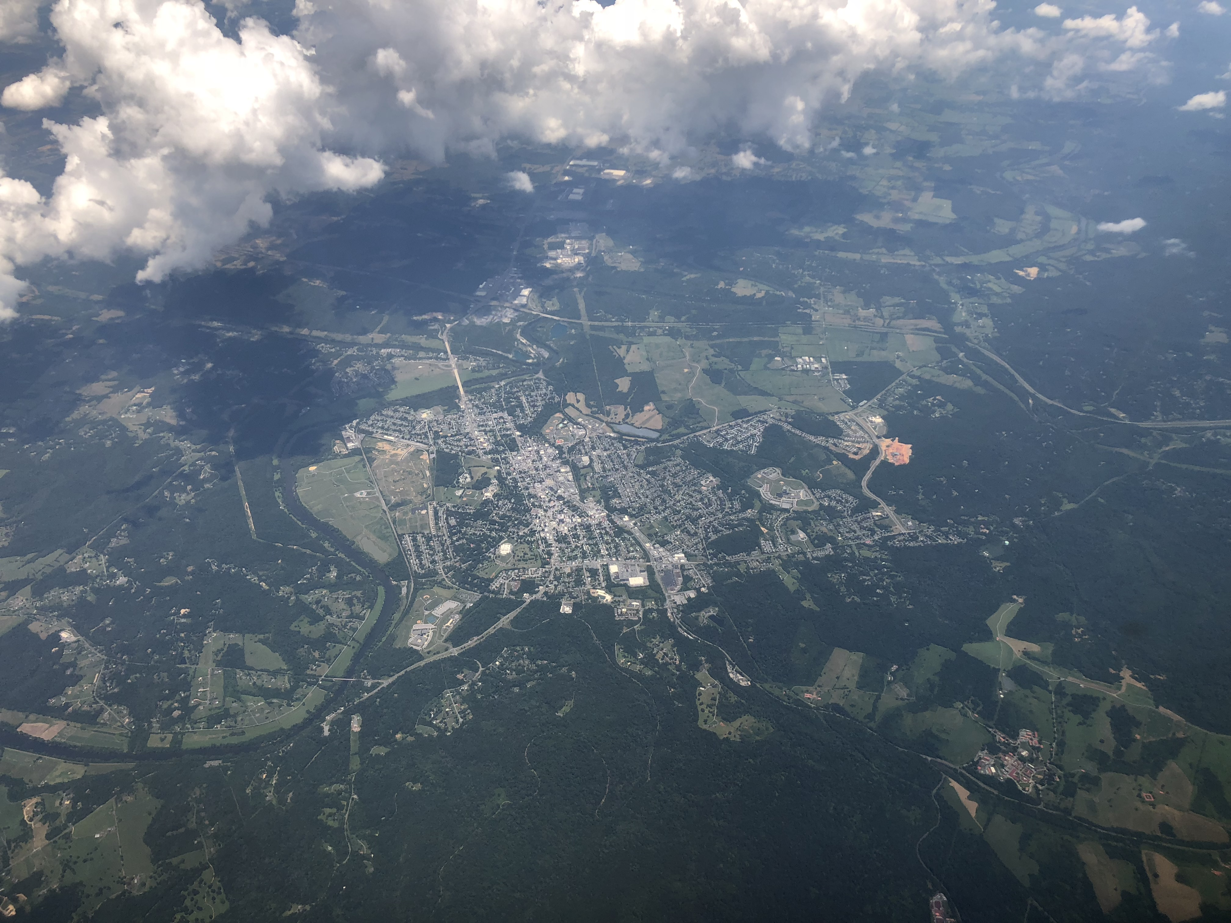 View of Front Royal, Interstate 66, U.S. Routes 340 and 522 and Virginia State Route 55 in Warren County, Virginia, viewed from an airplane which recently took off from Washington Dulles International Airport